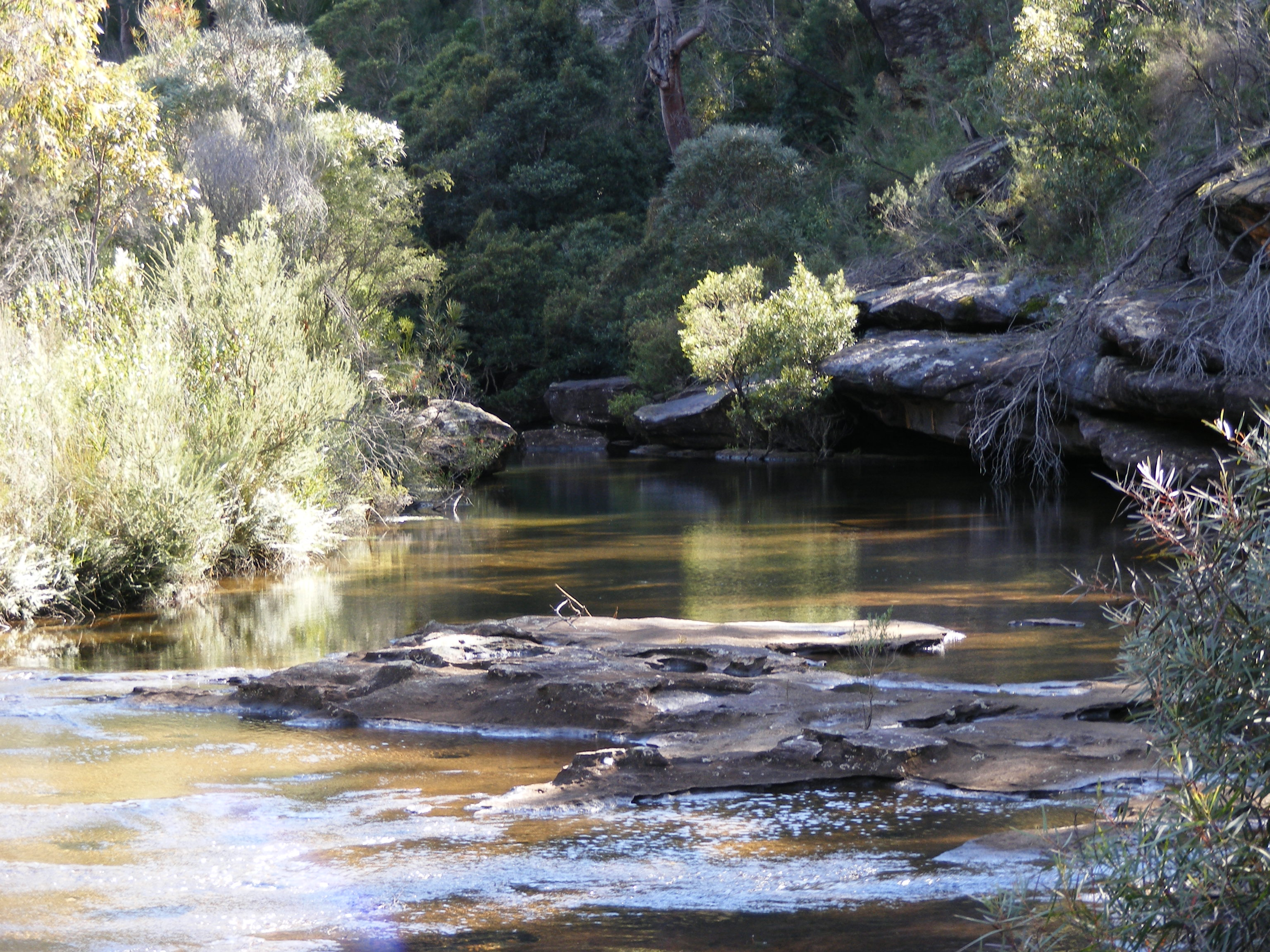 Heathcoate National Park in the Sutherland Shire, New South Wales